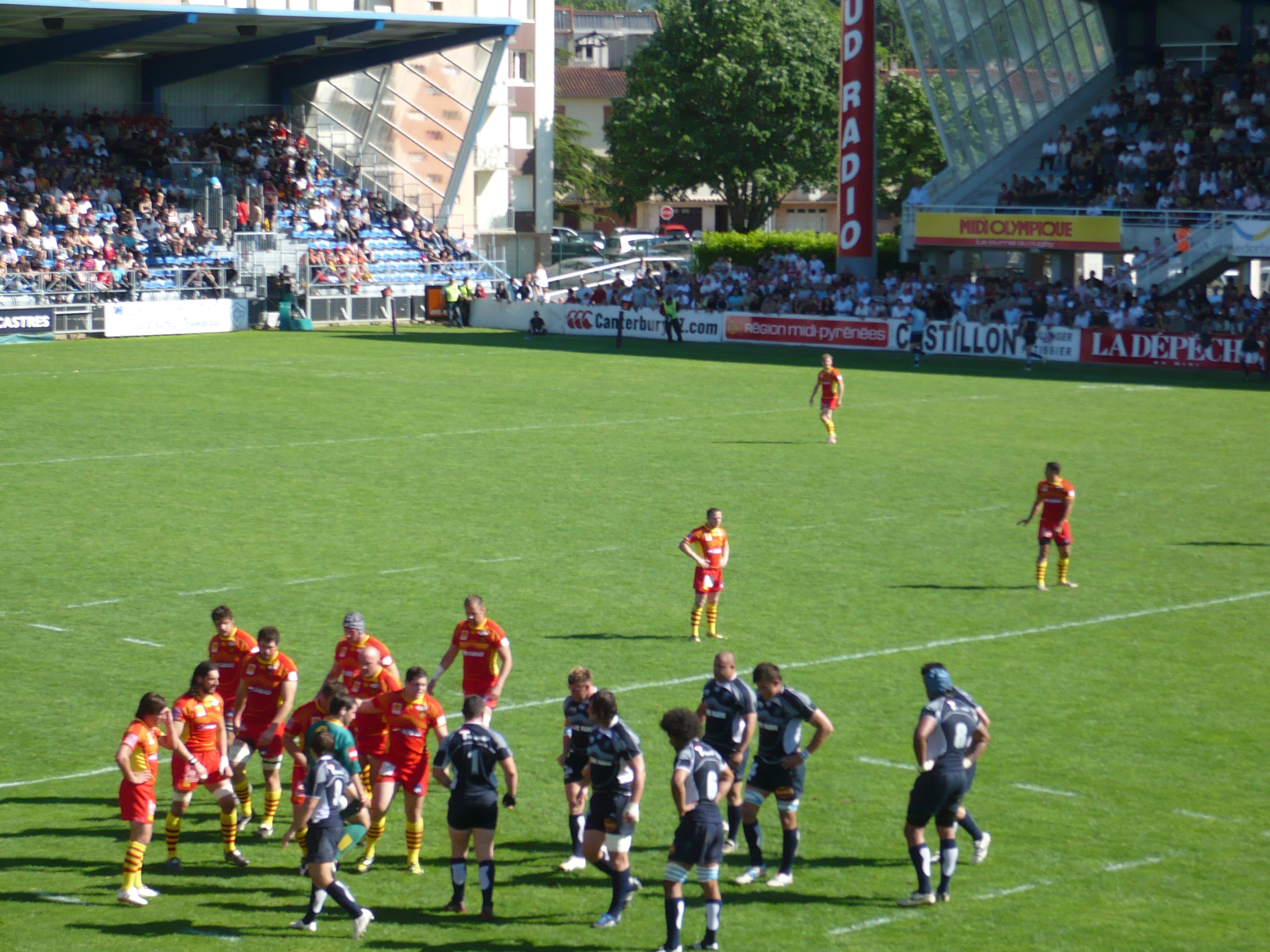 Castres contre USAP